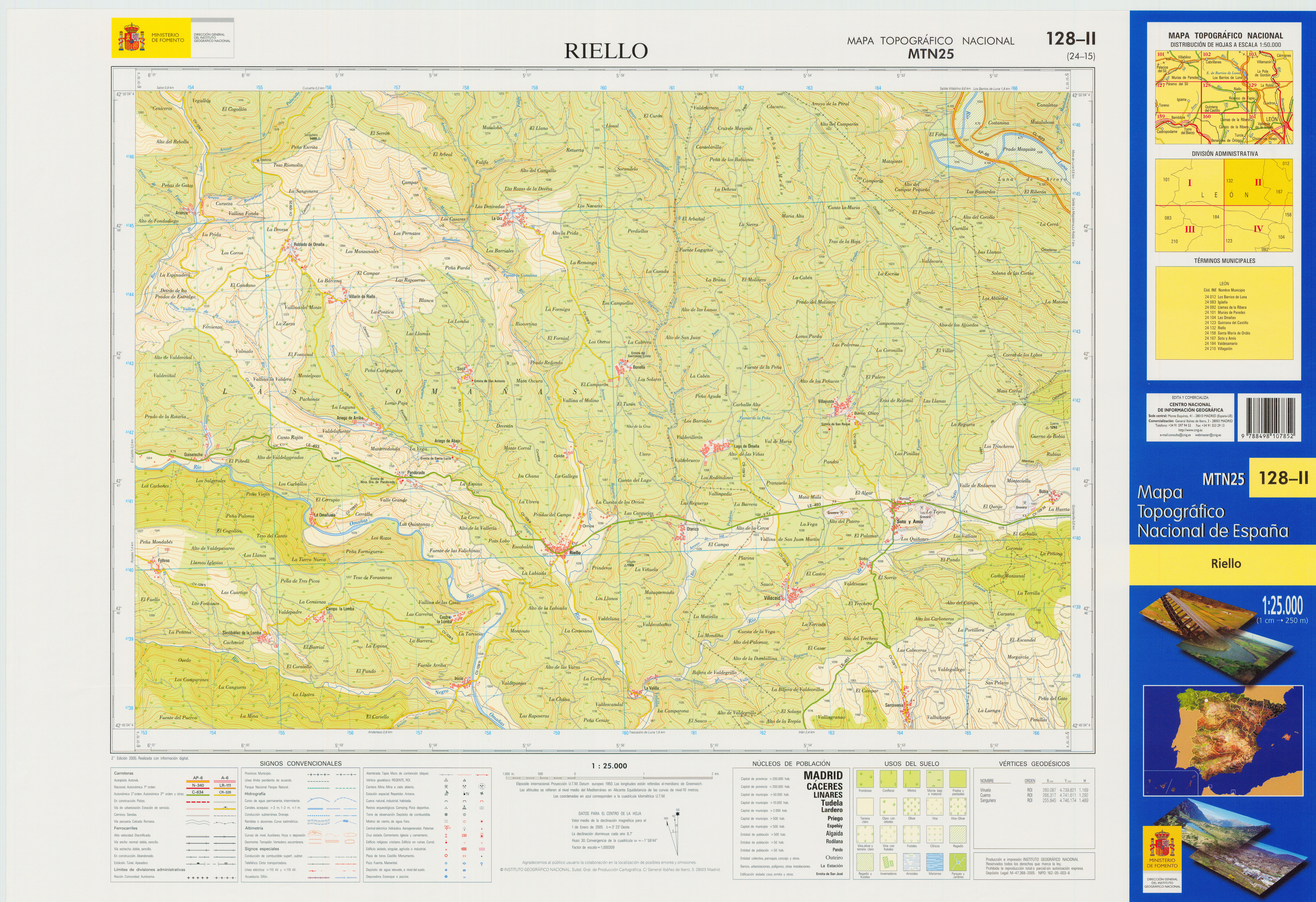 Fragment 0128c2 of the National Topographic Map of Spain in 2005 at a scale of 1:25000 printed and scanned with a resolution of 250 ppi. It shows Riello.